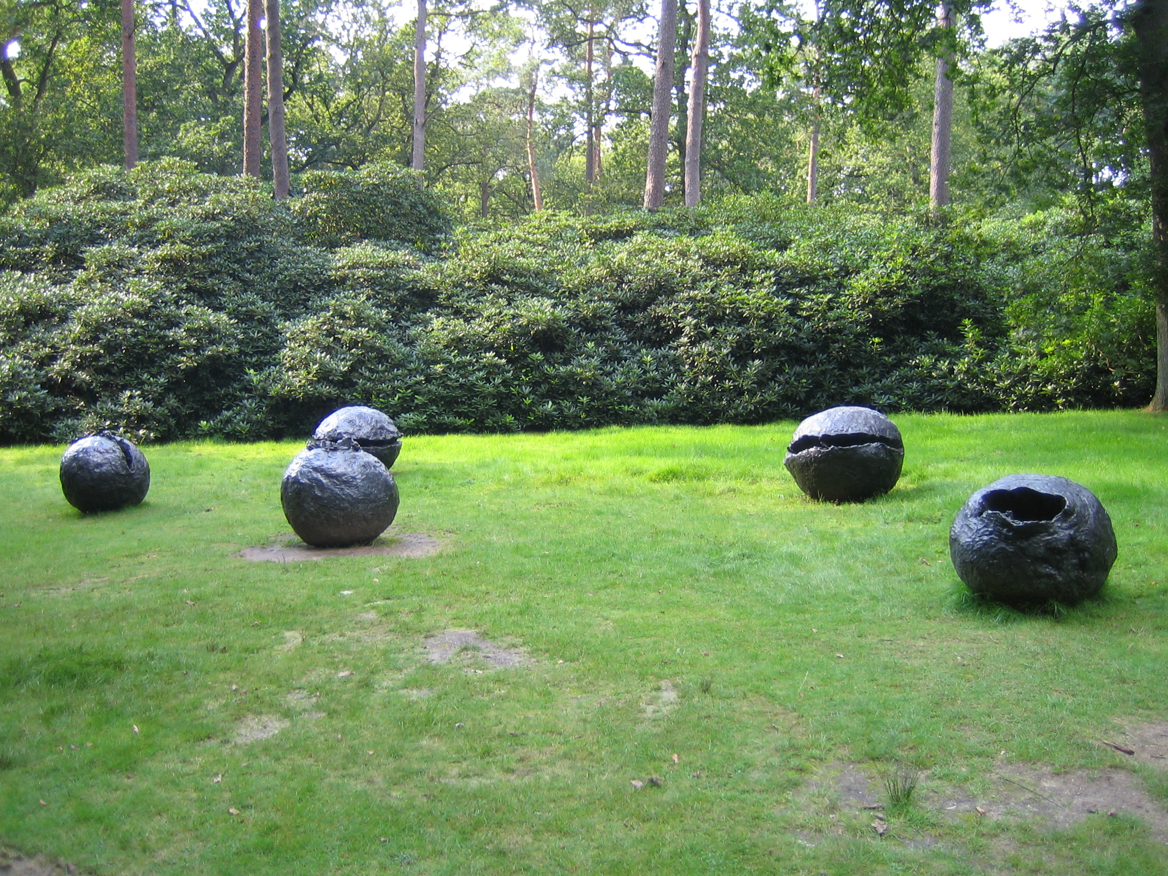 sculpture Concetto spaziale Natura (1959-1960) by Lucio Fontana in the Netherlands